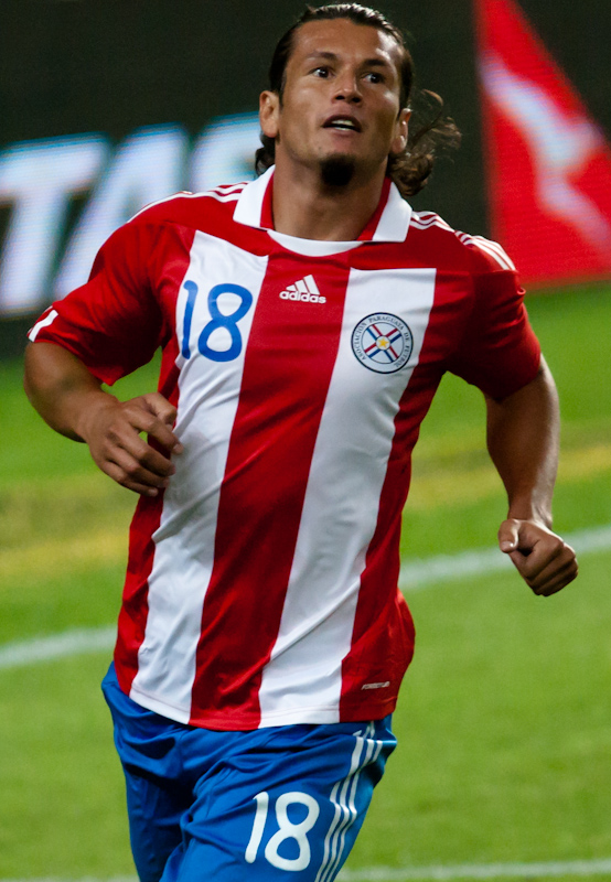 Nelson Valdez playing for the Paraguay national football team in a friendly match against Australia at the Sydney Football Stadium.